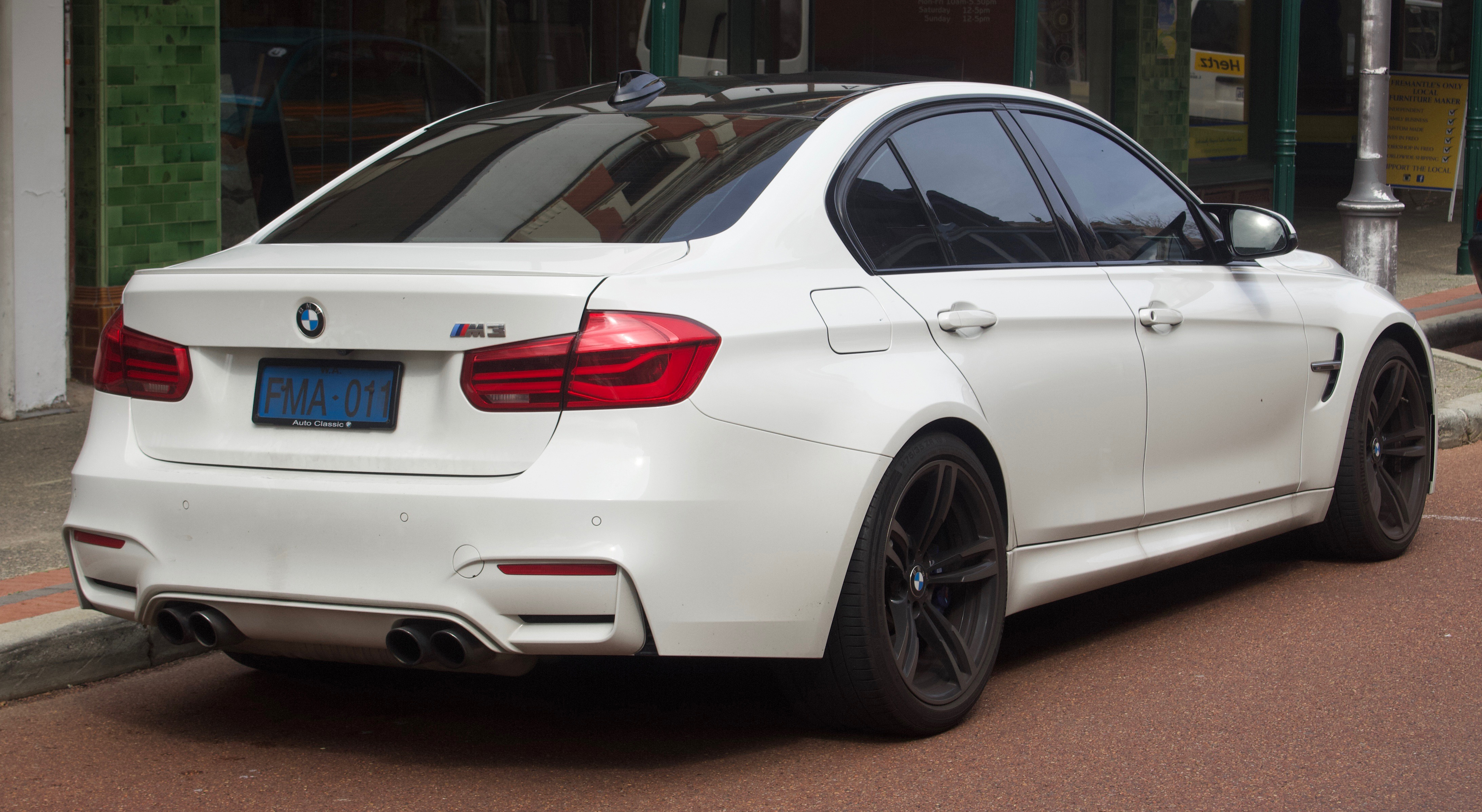 2017 BMW M3 (F80) sedan. Photographed in Fremantle, Western Australia, Australia.